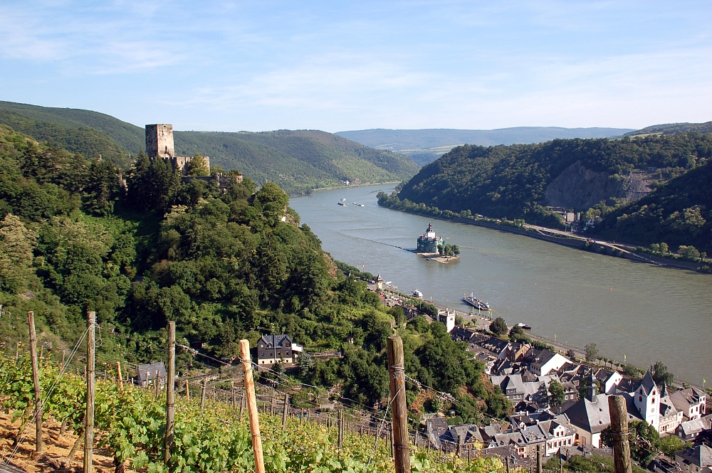 Burg Gutenfels (left) above Kaub, Germany with Burg Pfalzgrafenstein in the background